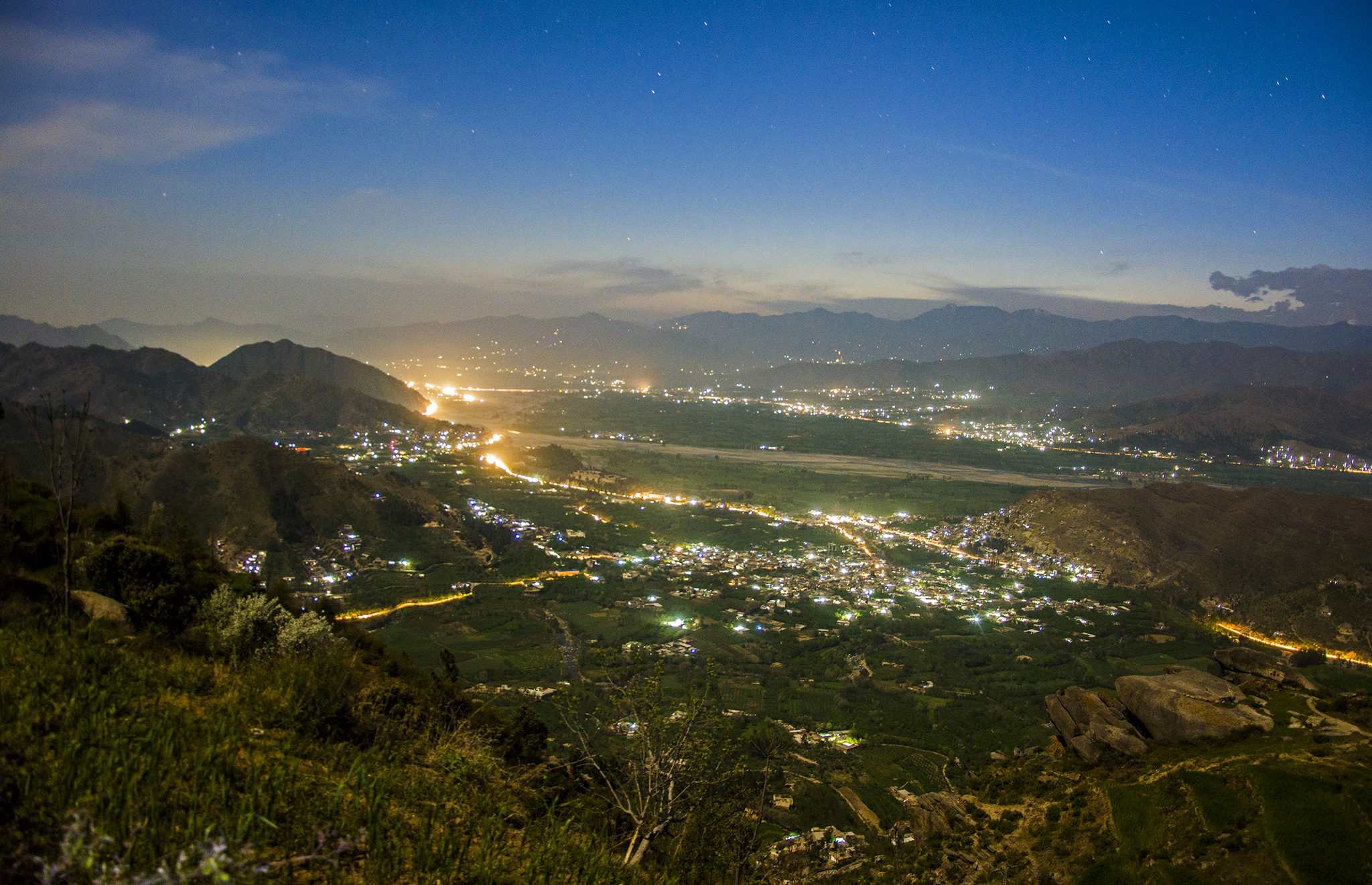 Nightscape of a Village named Manglawar with the surrounding areas in Swat Valley, KPK, Pakistan